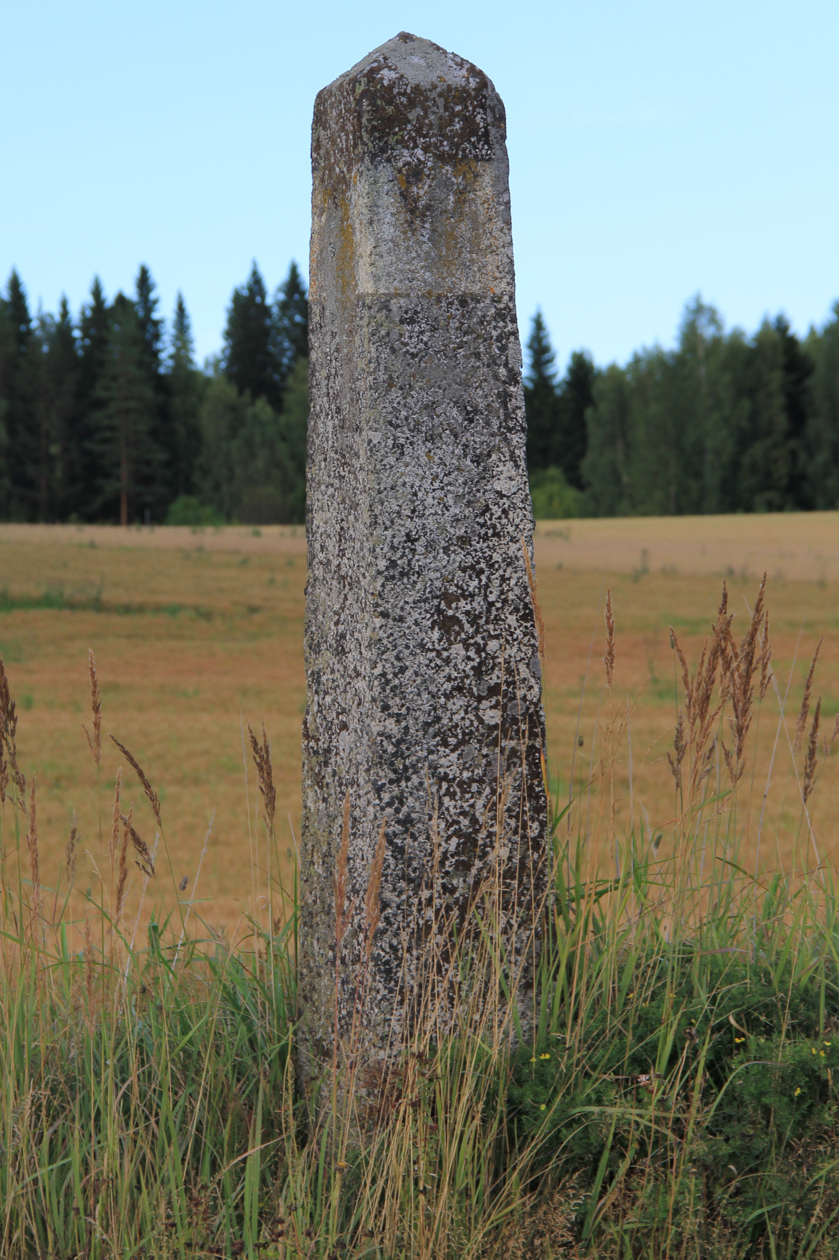 Koivisto local road, Äänekoski, Finland. – Museum road milestone, erected propably in the 1930's.